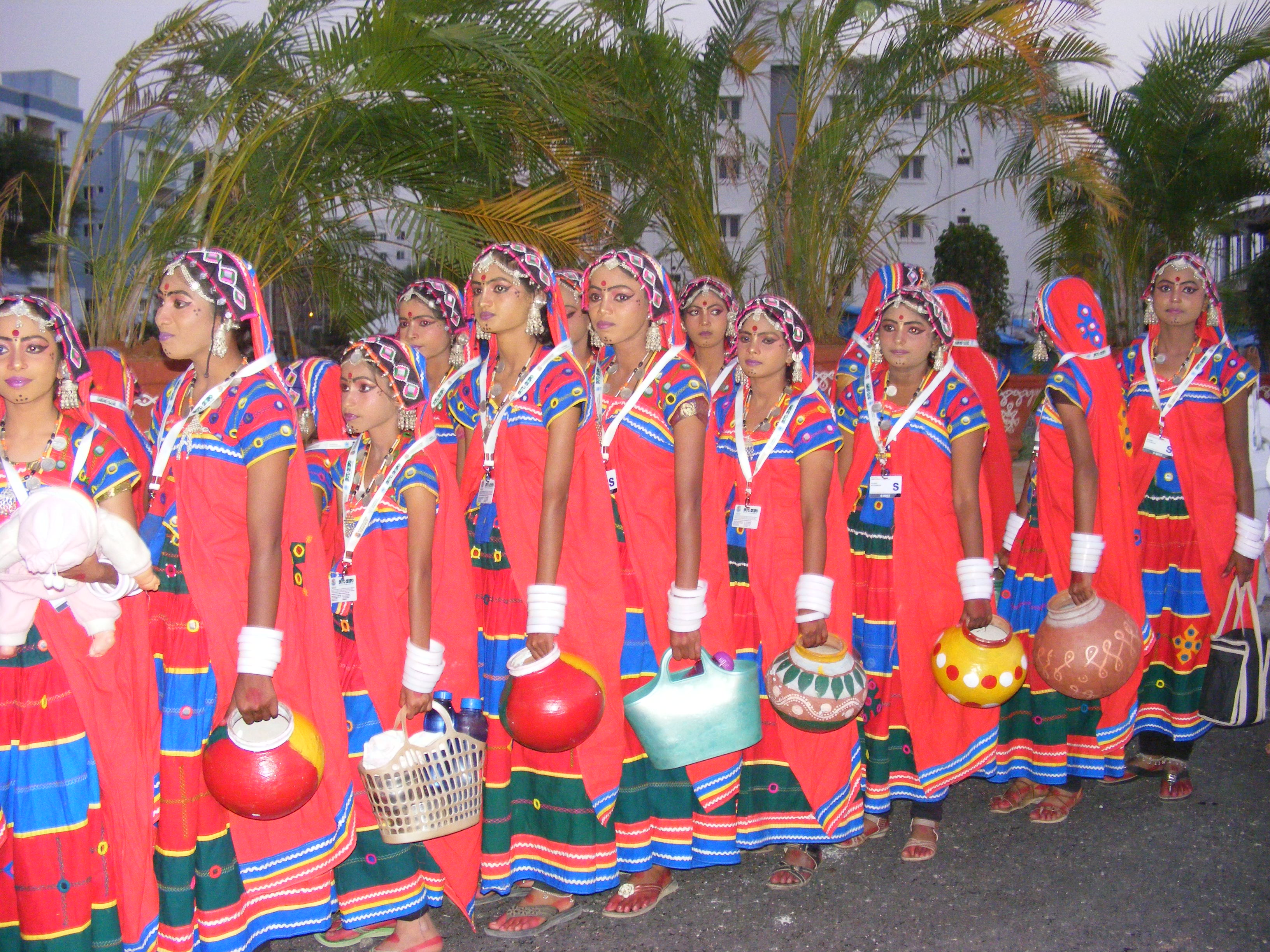 Dancers wearing traditional dress of the Banjara Lamadi or Lambani tribe in Andhra Pradesh